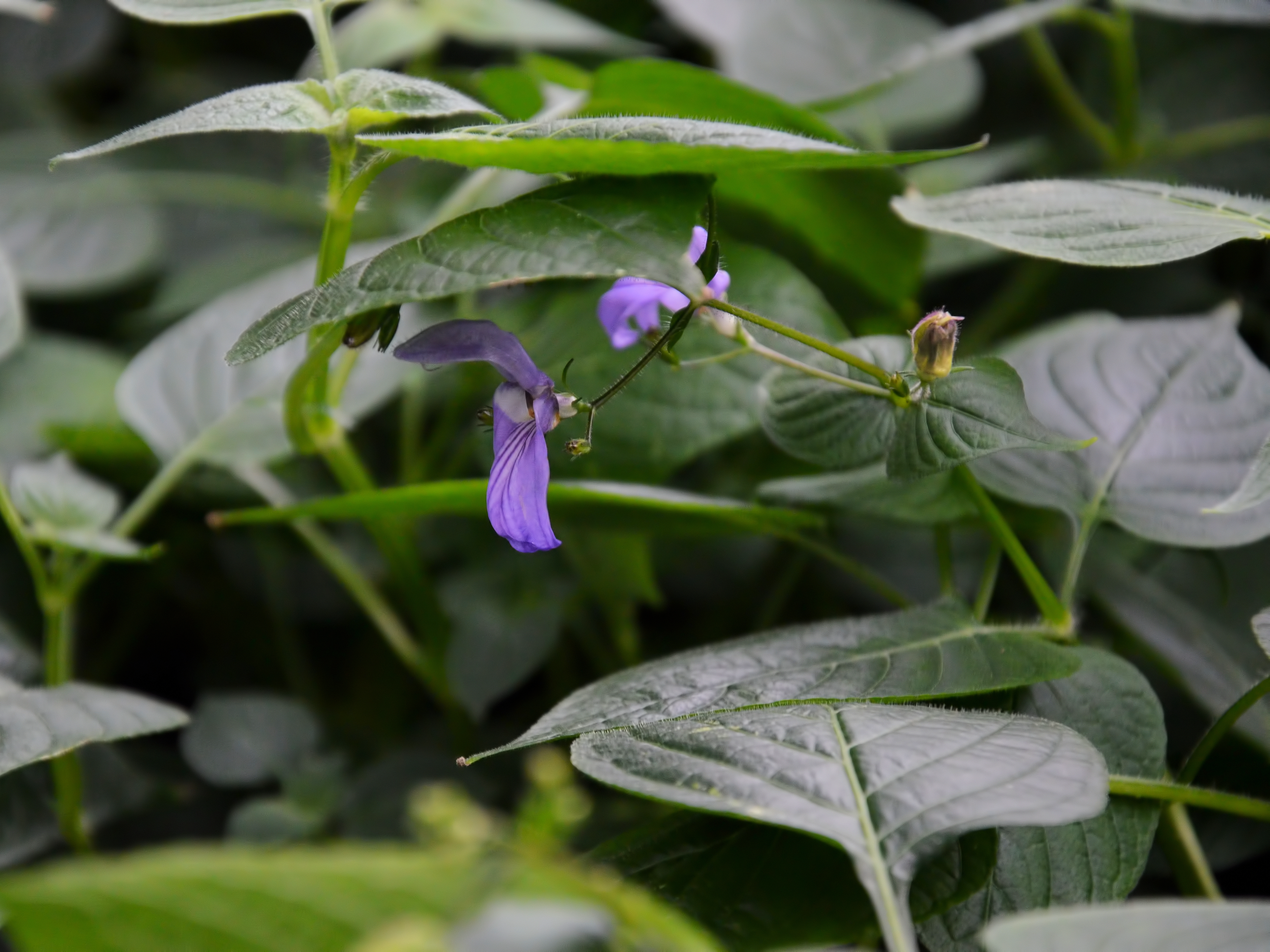 Brillantaisia at Kew Gardens, London, UK.